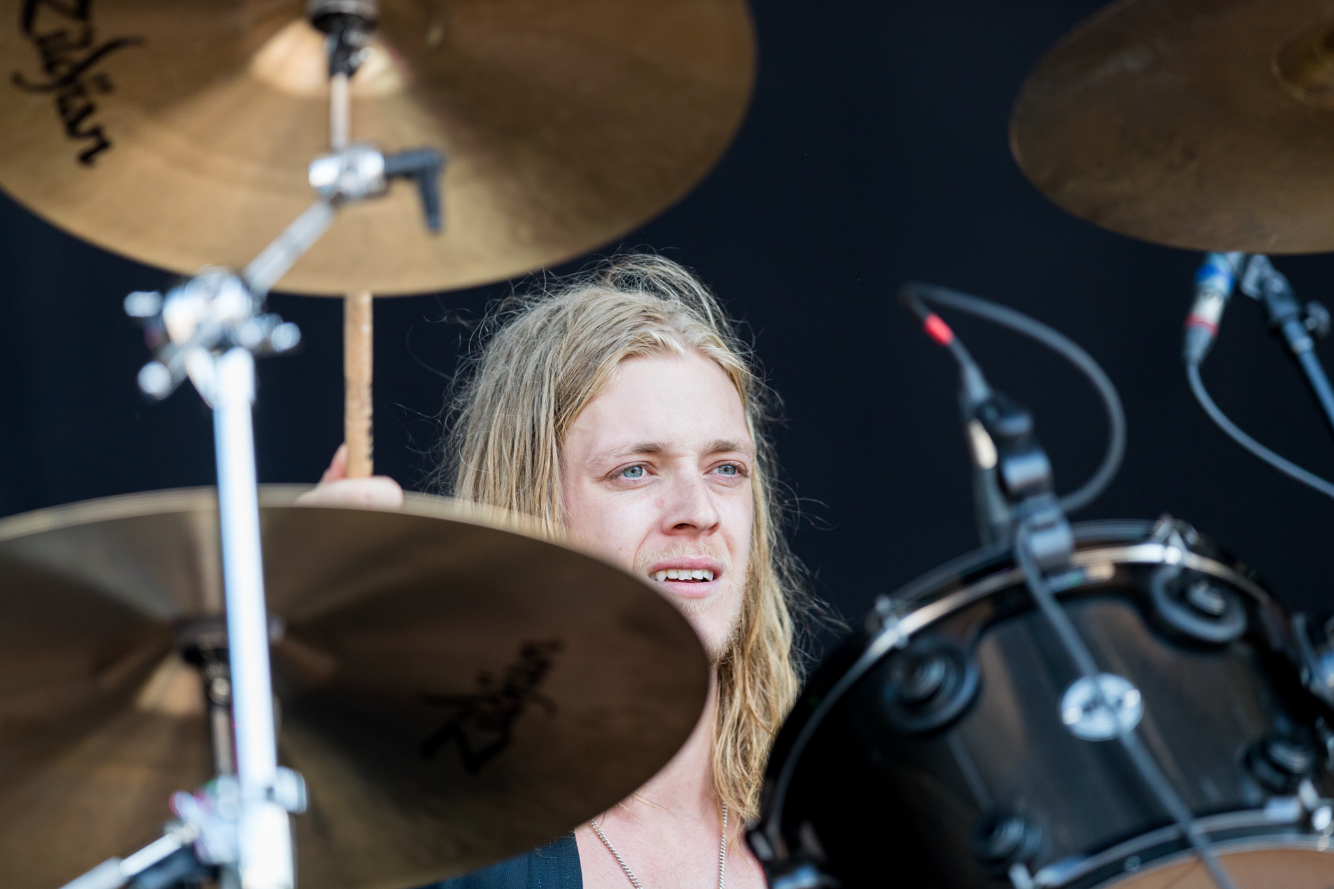 The Darkness @ Rock the Ring 2018